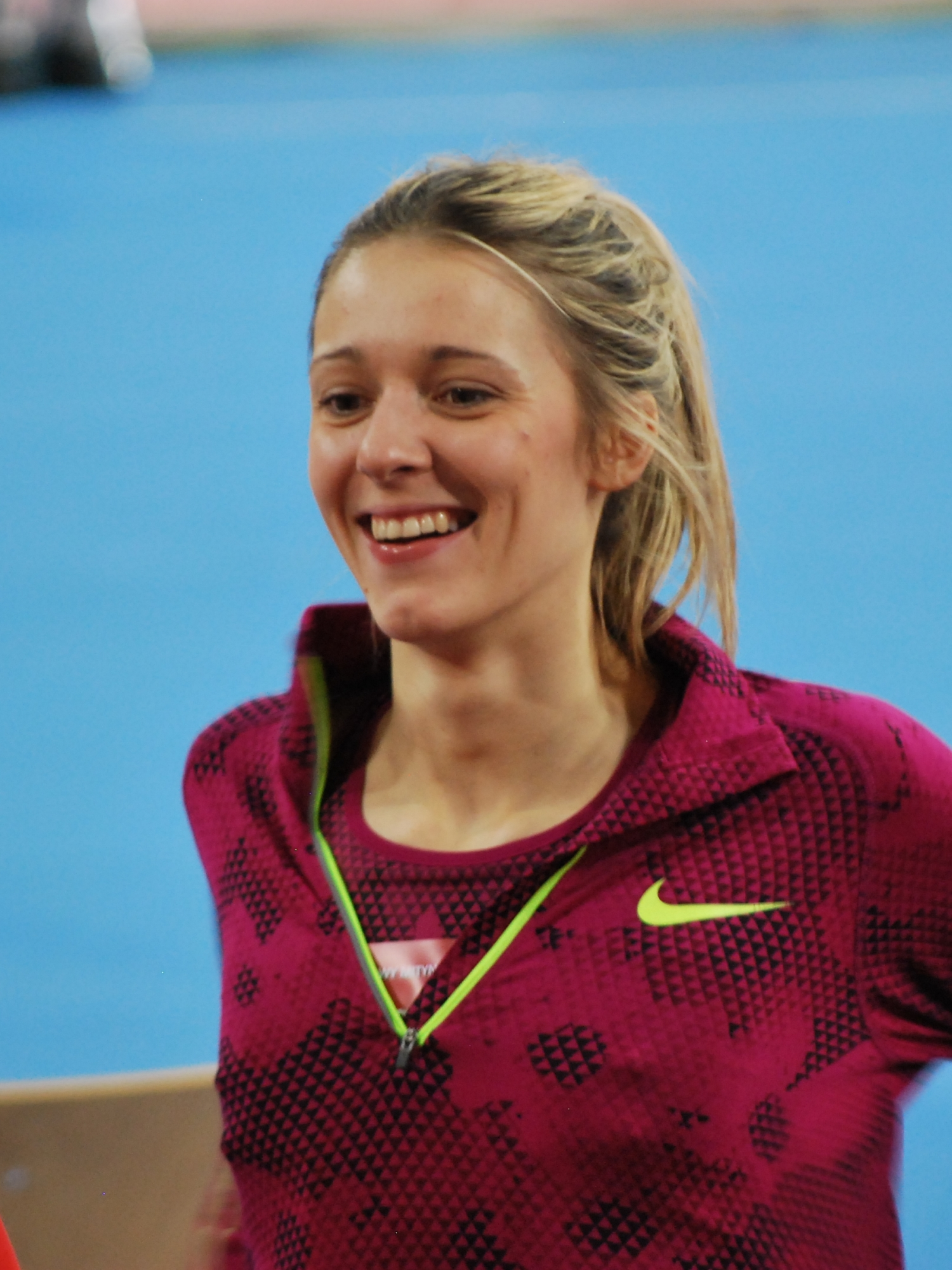 Pedros Cup 2015 Łódź, Ana Šimić, high jumper from Croatia